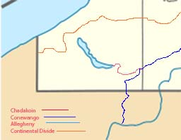 Chadakoin River Map in Western New York USA